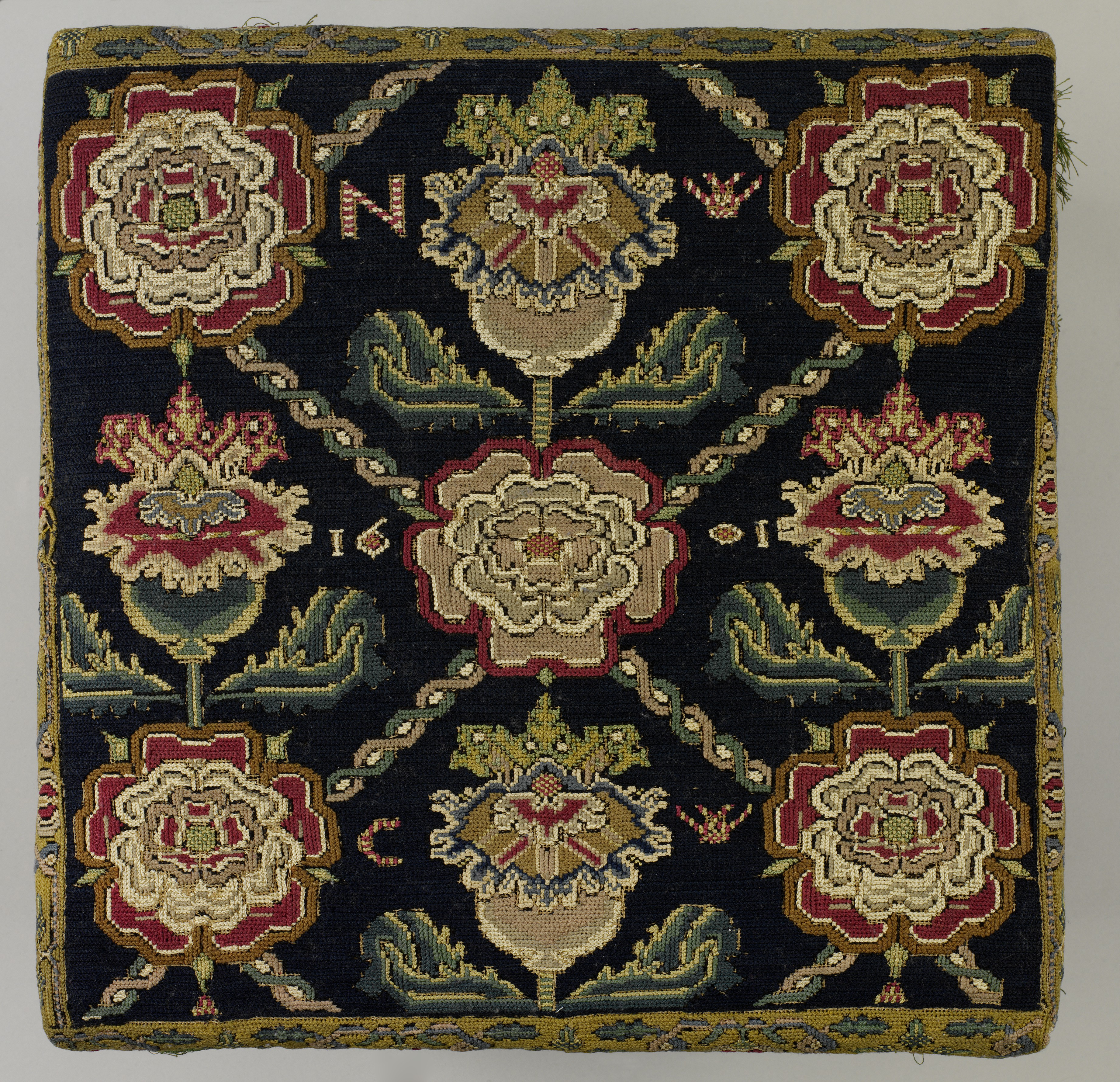 British; Stool; Woodwork-Furniture